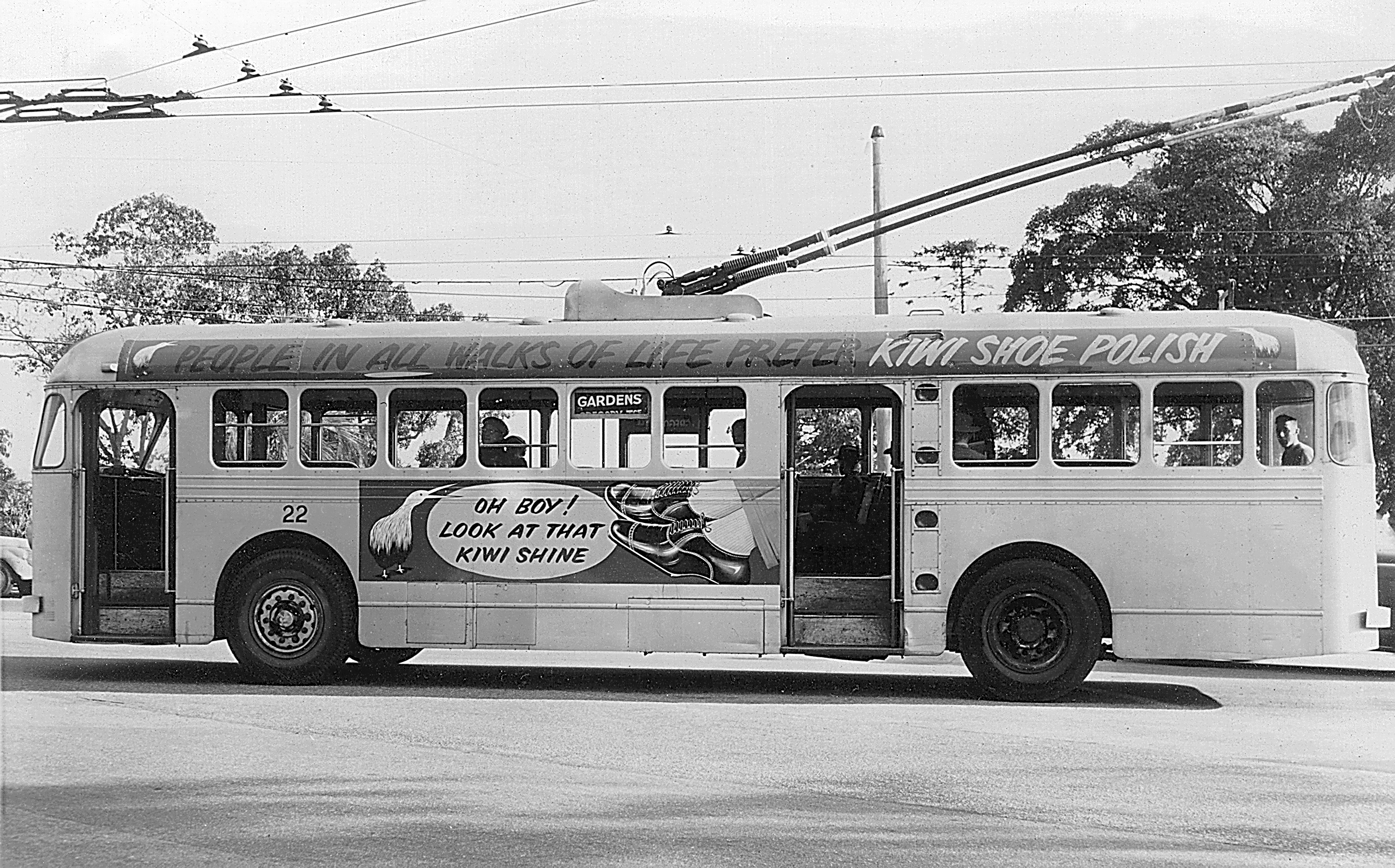 Brisbane City Council First electric trolley bus Sunbeam MF2B circa 1952